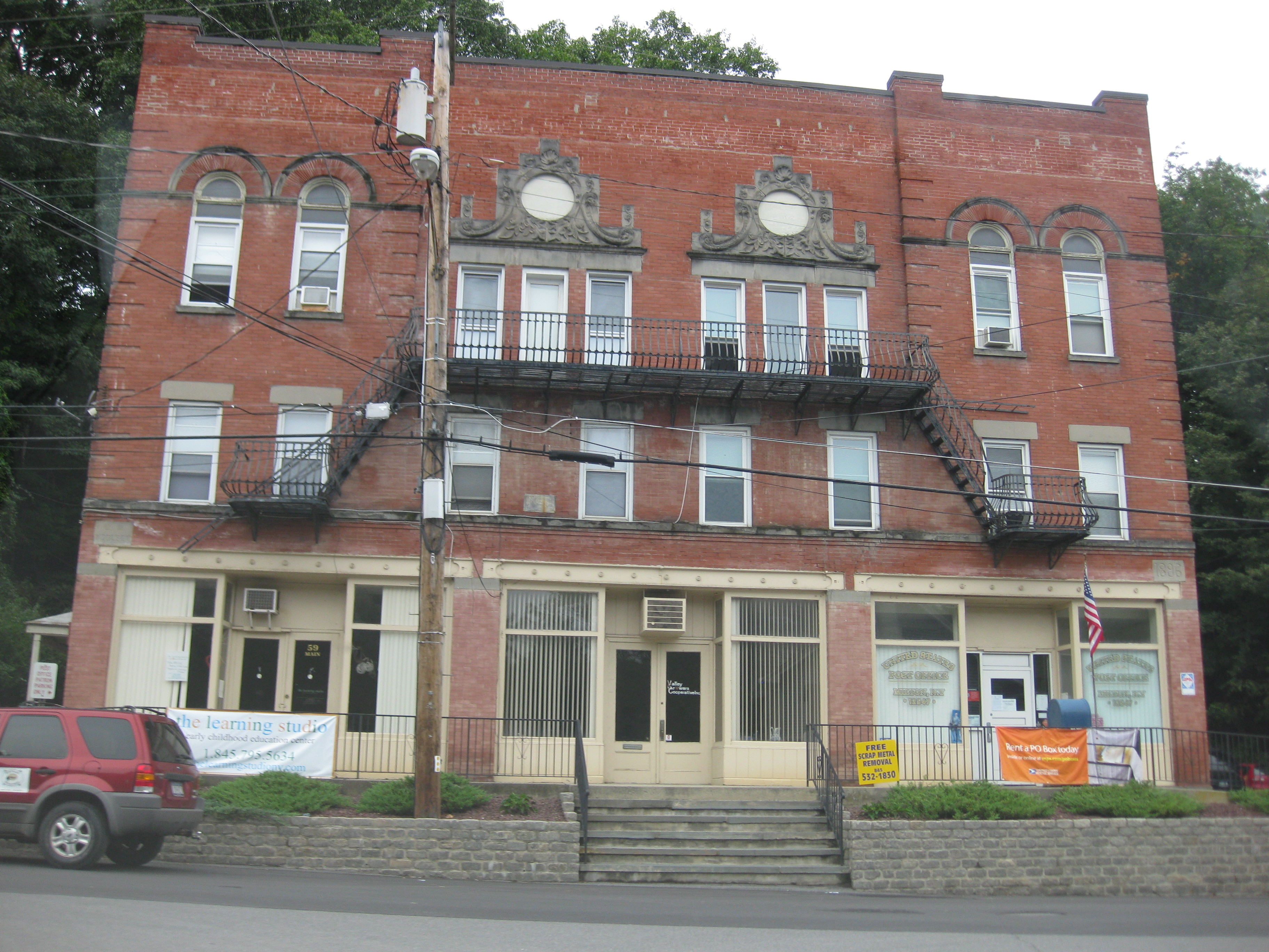 A photo of the building containing the US Post Office in the Hamlet of Milton, NY. This is in the town of Marlborough, in Ulster County. The post office is on the rightmost storefront.